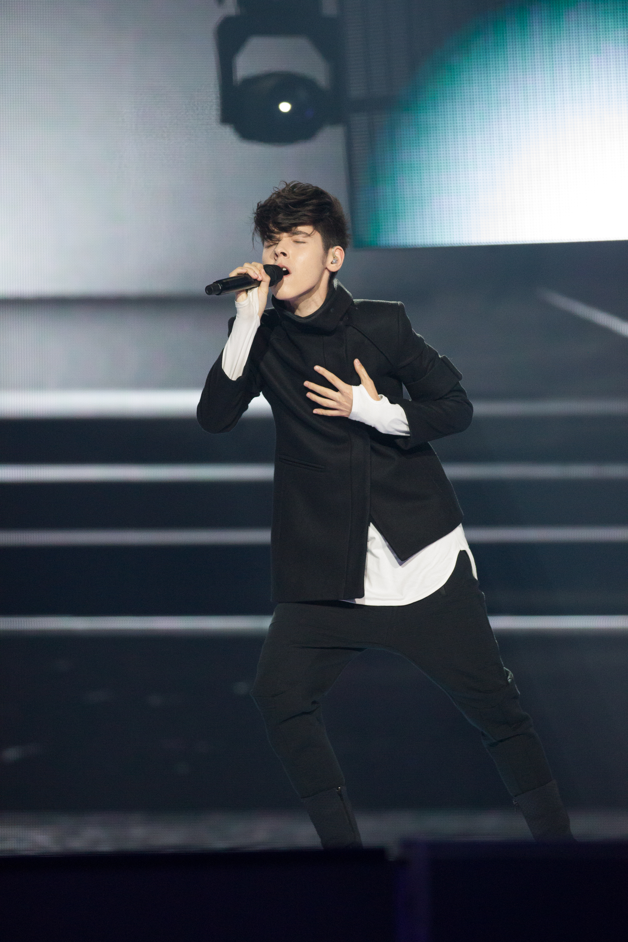 Kristian Kostov representing Bulgaria with the song "Beautiful Mess" during a rehearsal before the grand final of the Eurovision Song Contest 2017 in Kyiv.